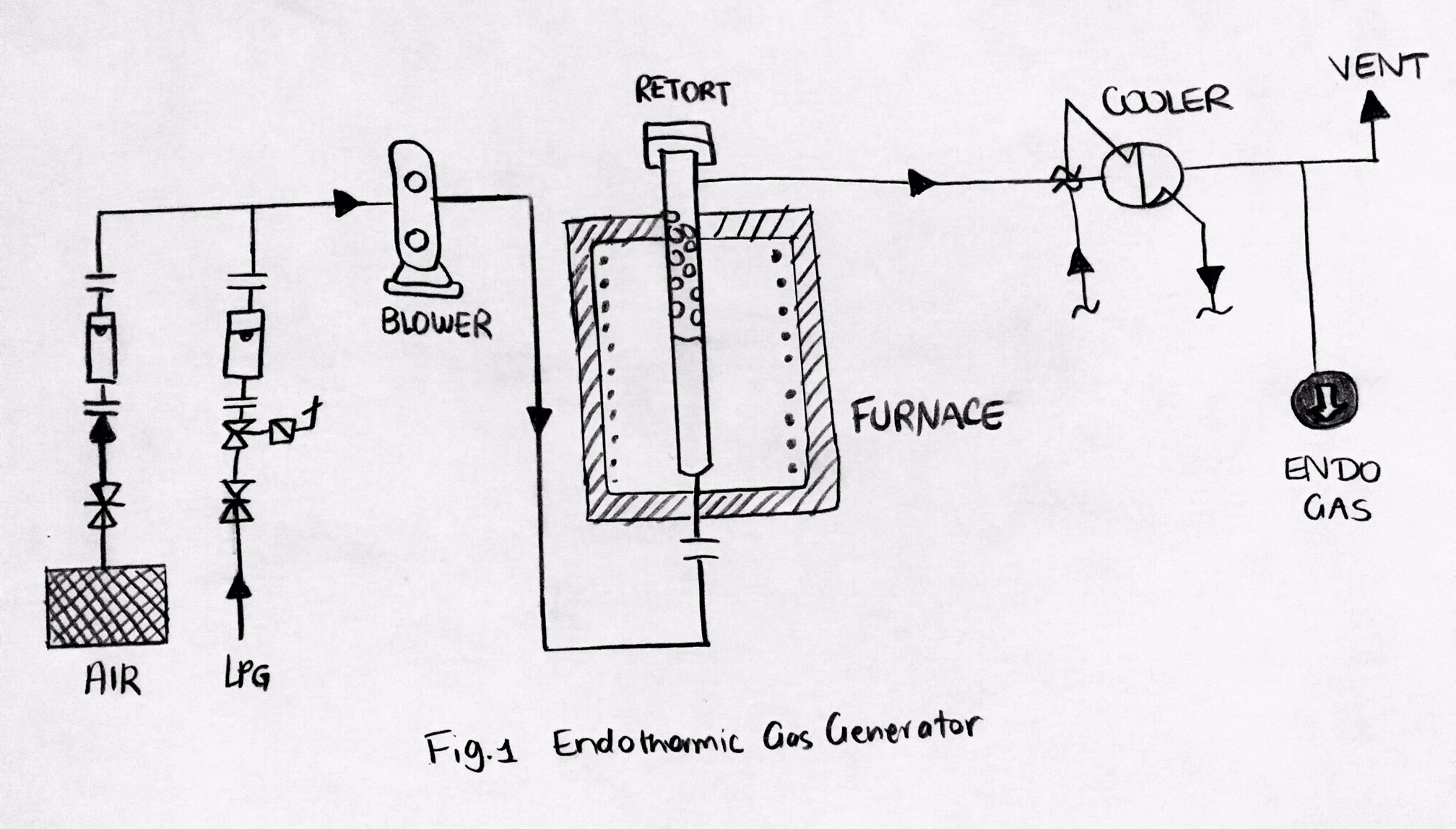 Diagram of an Endothermic Gas Generator